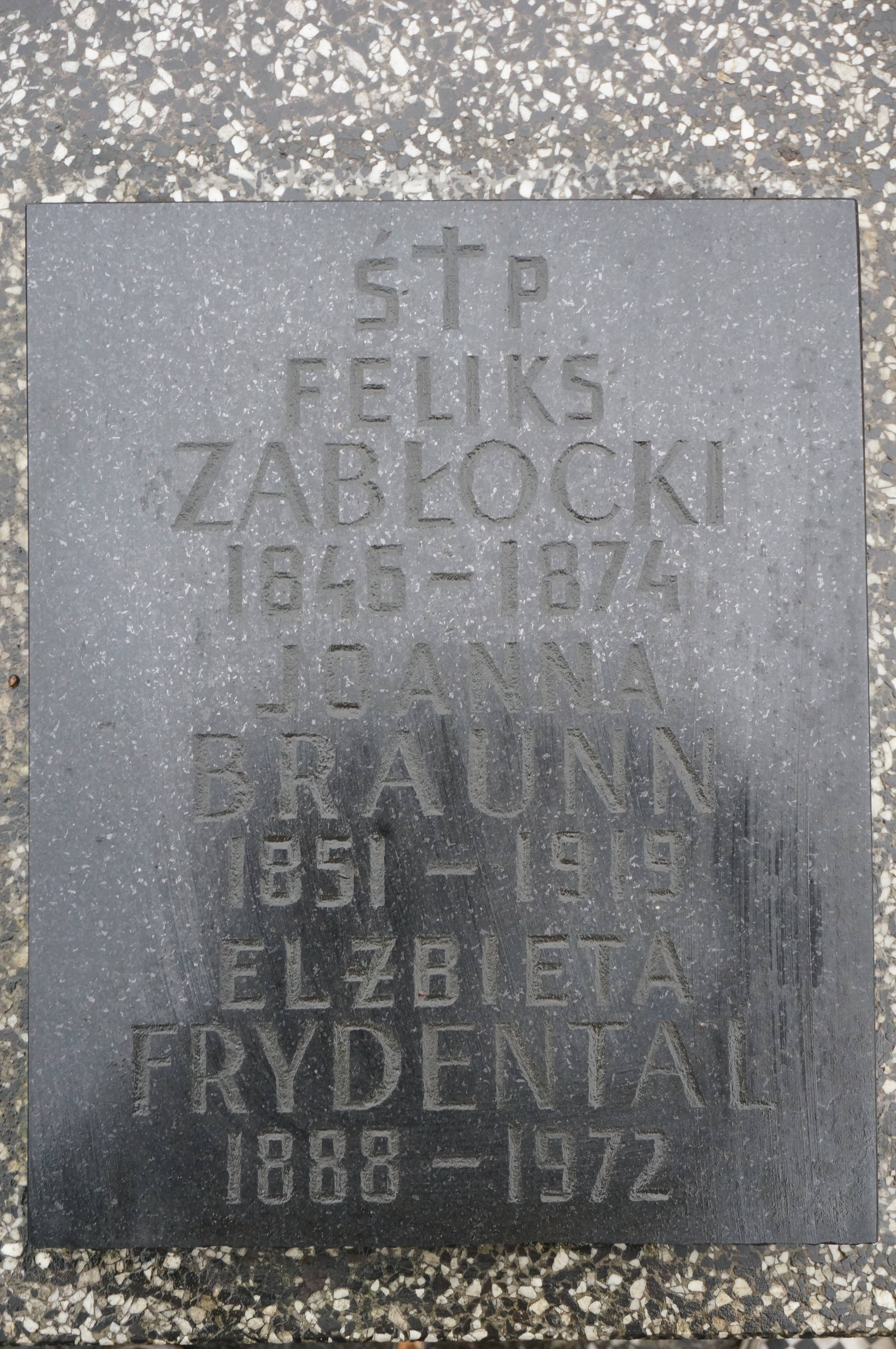 Grave plaque on the tomb of Feliks Zabłocki at the Powązki Cemetery (section 30Wprost, row 6, grave 38)